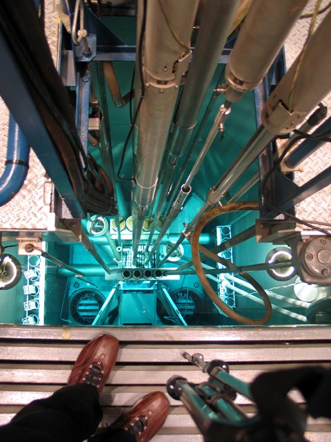 Pulstar Nuclear Reactor. Photographed in April 2005. (Canon, 7MP). Category:North Carolina State University Images